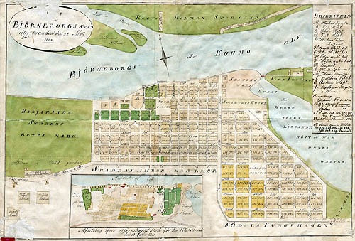 Map of Pori,1852.